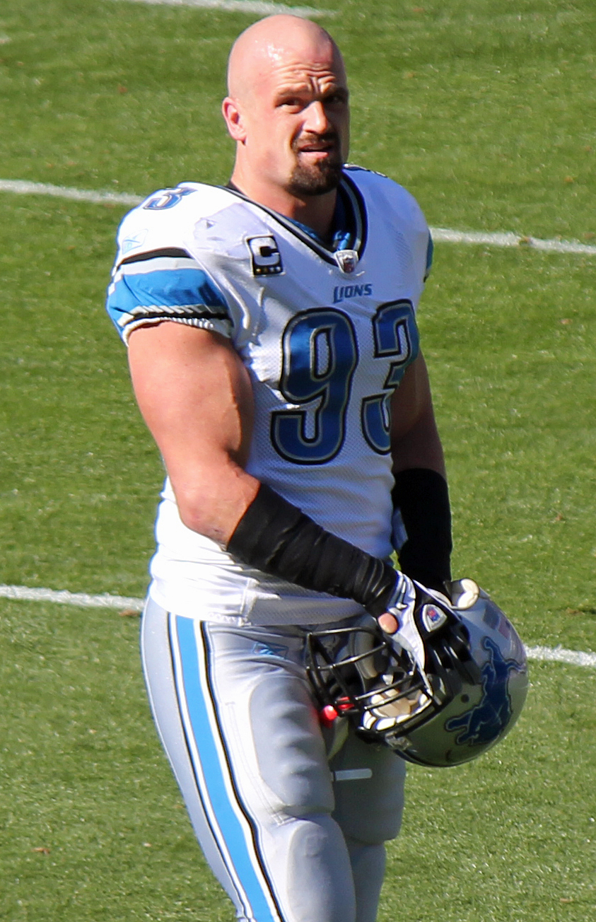 Kyle Vanden Bosch, a National Football League player.